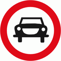 Diagram of road signs of Luxembourg